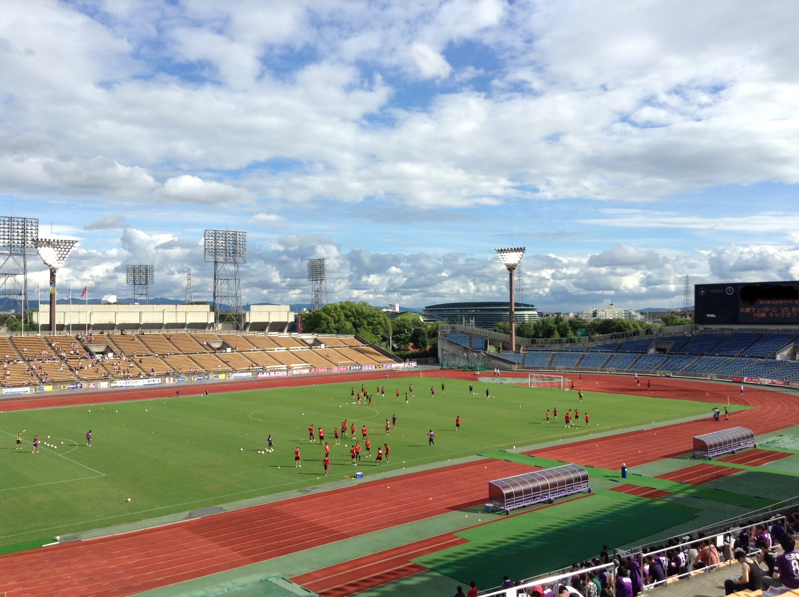 93rd Emperor's Cup ,Kyoto Sanga F.C. vs Sagawa Printing Soccer Club, 8 September, 2013（After correction）